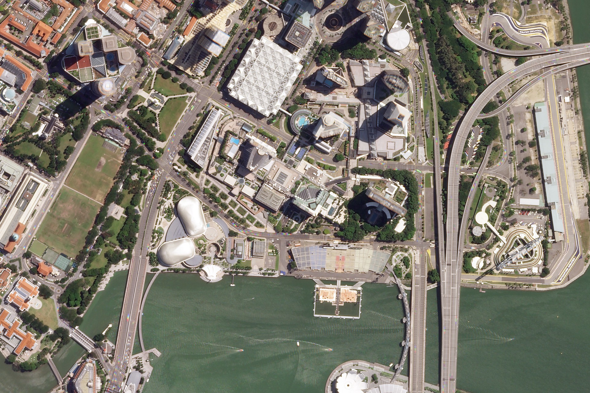 The Marina Bay Street Circuit, a street circuit around Marina Bay, Singapore, and the venue for the Singapore Grand Prix. Image taken on May 8, 2018, by a Planet Labs SkySat satellite.